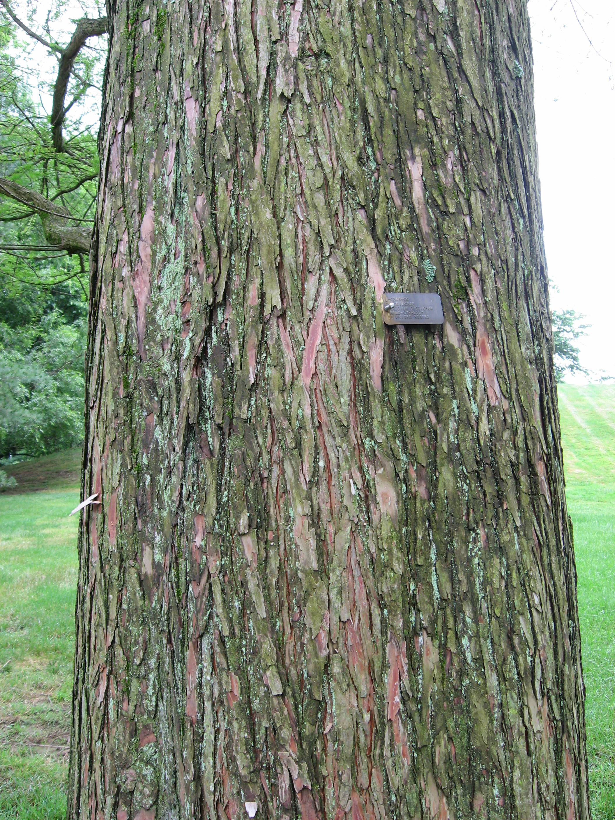 A picture of the bark of Taxodium distichum.